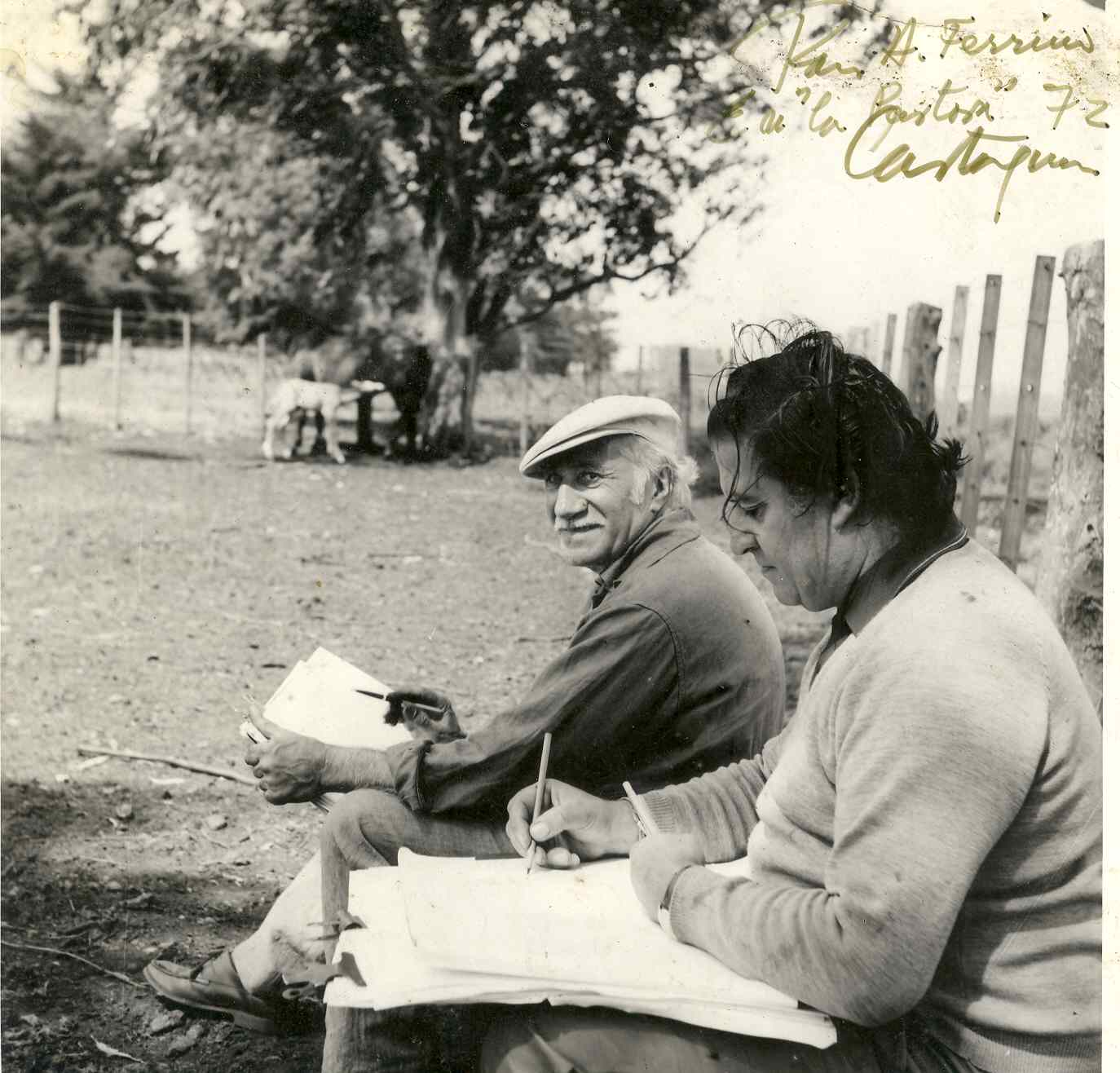 Hidelberg Ferrino and Juan Carlos Castagnino